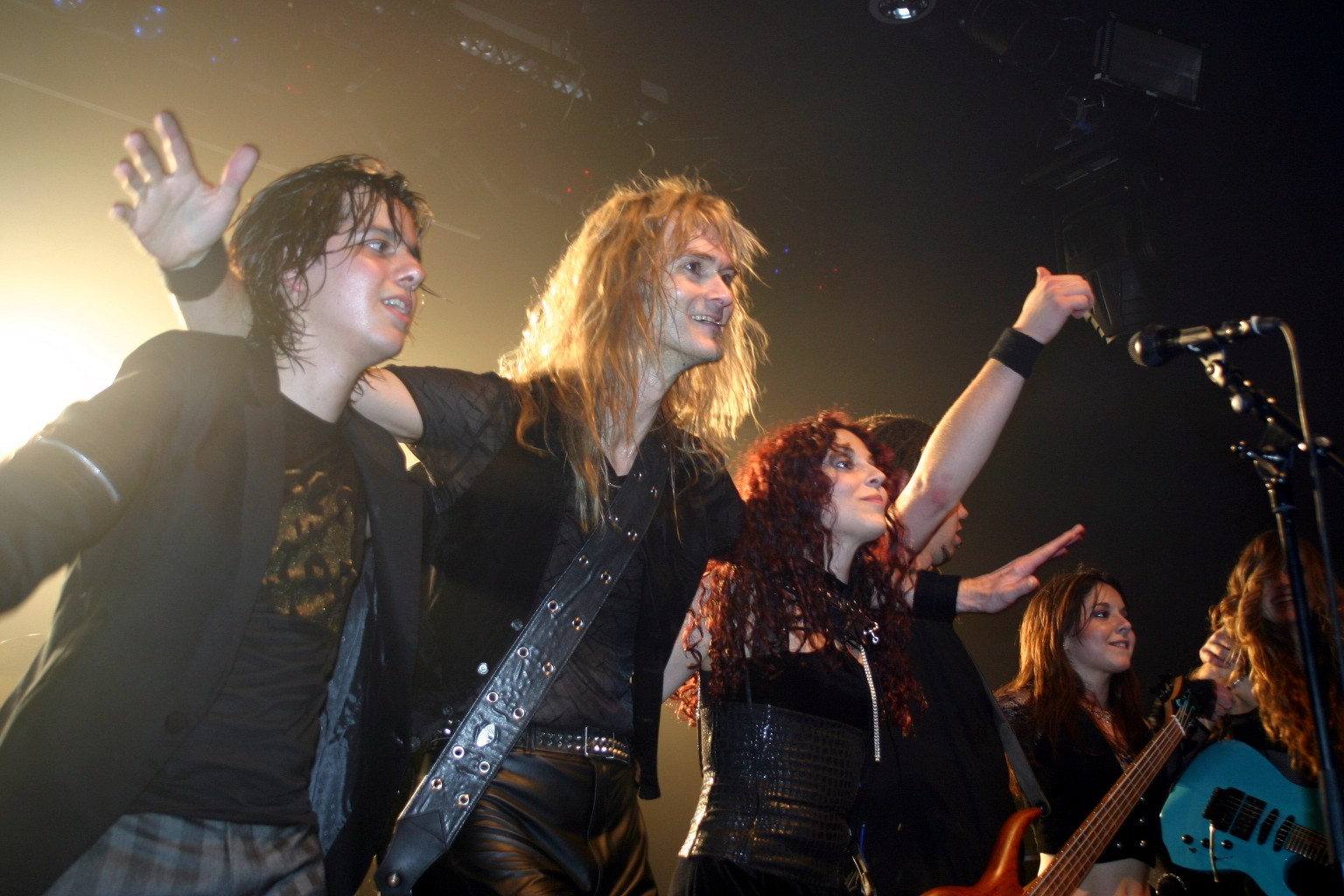 The Dutch gothic metalband Stream of Passion. Picture token at the P60 gig at the city of Amstelveen From left to right: Alejandro Millán - Piano Arjen Lucassen - Guitars, Music Marcella Bovio - Vocals, Violin, Lyrics Johan van Stratum - Bass Diana Bovio - Vocals Lori Linstruth - Lead Gitars